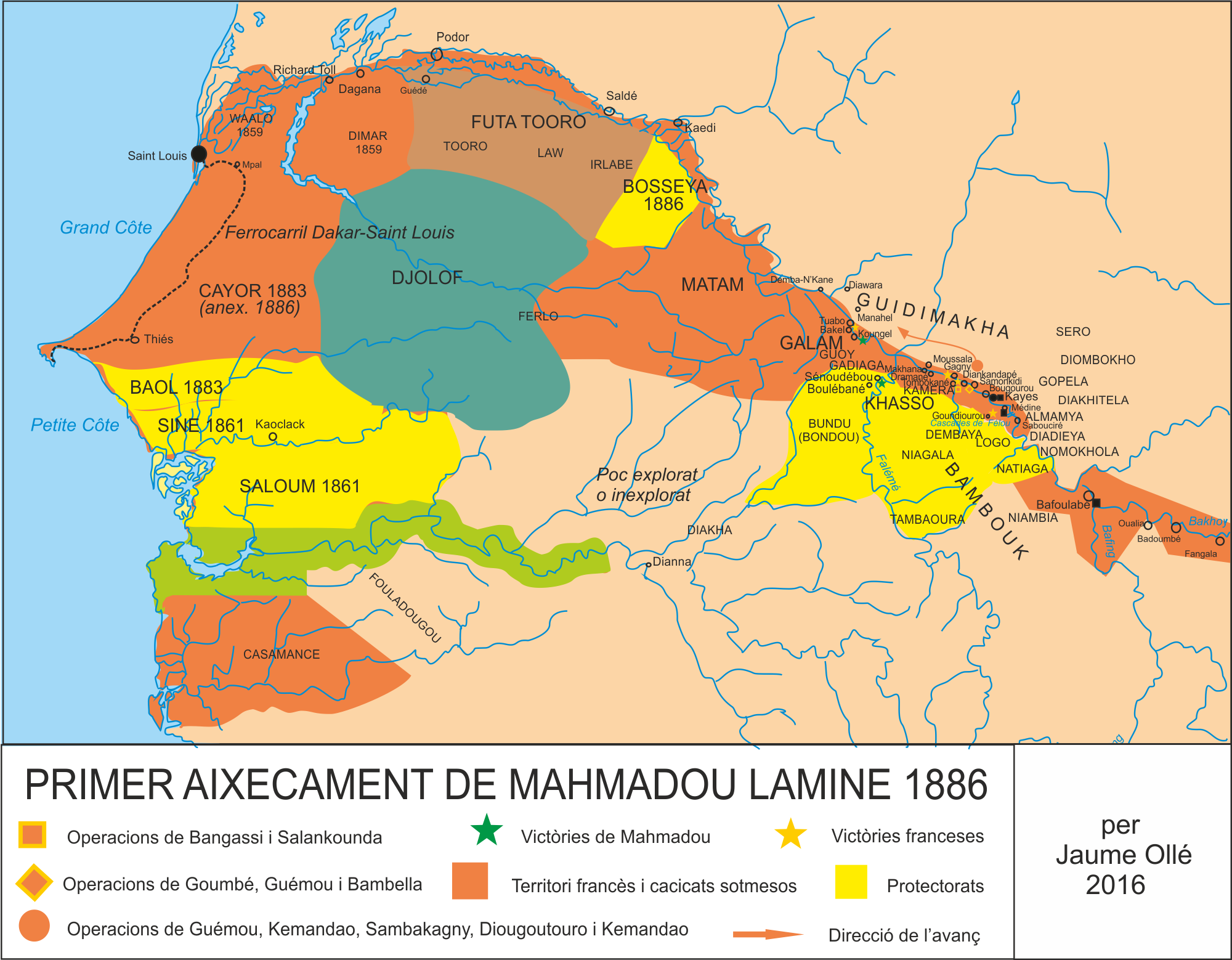 Mahmadou Lamine resistence to french colonialism in the firsts months of 1886